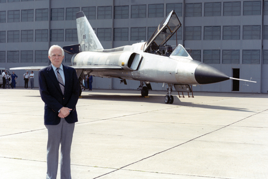 Richard T. Whitcomb with area-ruled F-106 aircraft (NASA 816) at the retirement of NASA 816 (used for flight research at NASA Glenn and NASA Langley) at Langley in 1991.